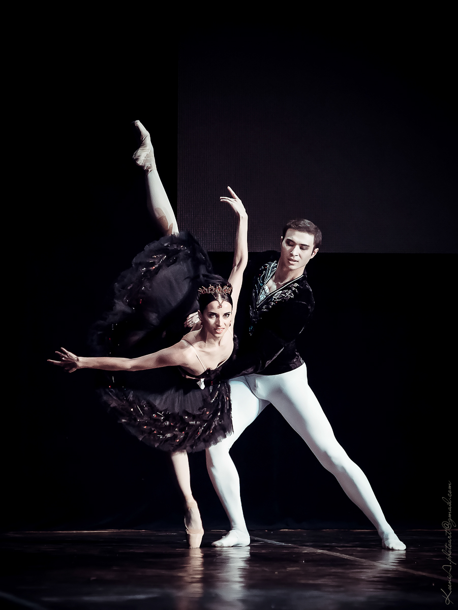 National Opera House of Ukraine_Ave Maya concert